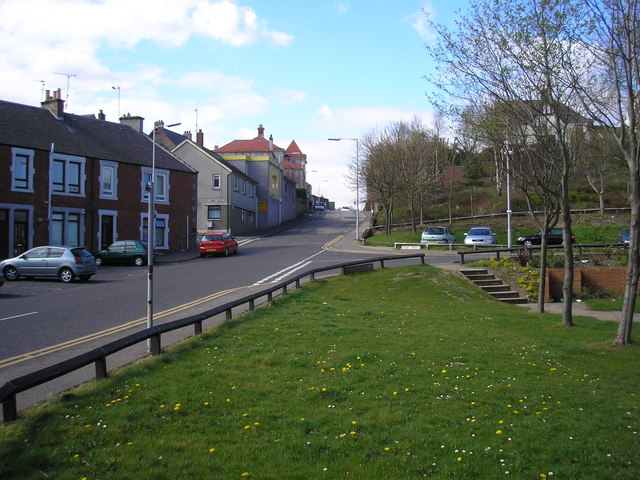 Fisher Street The view from the High Street, which forms part of the Fife Coastal Path.